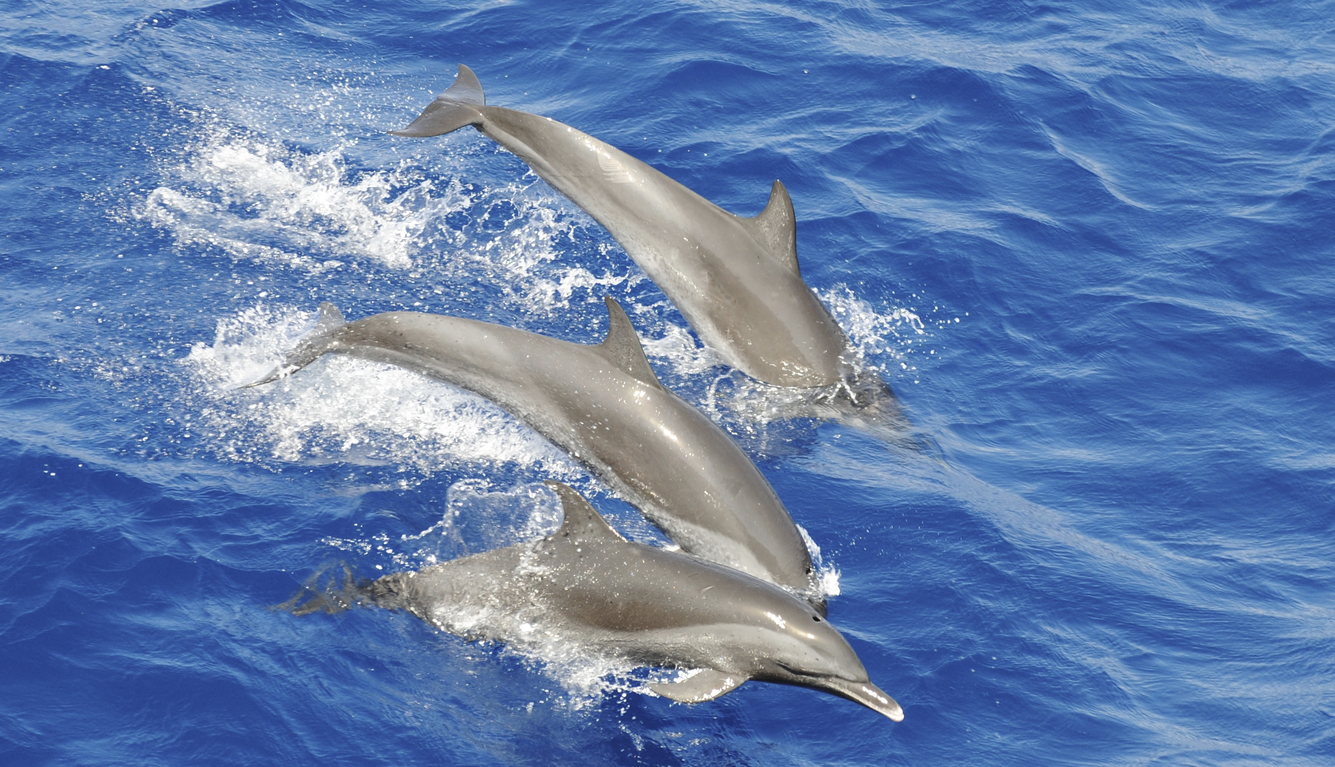 Colombian waters